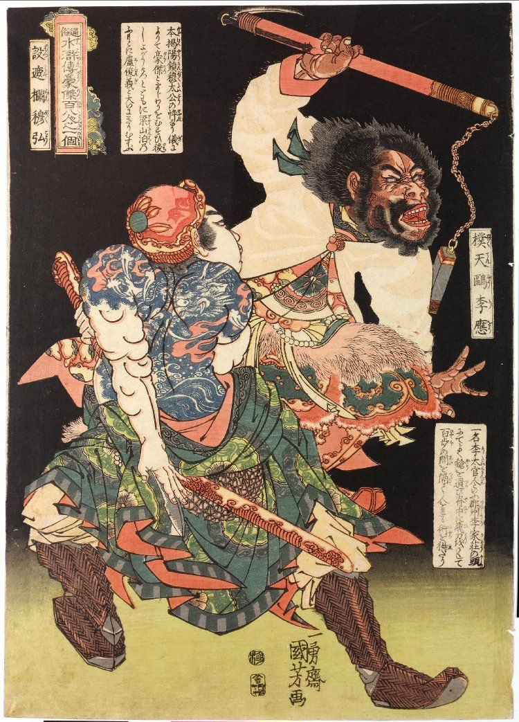 Mu Hong (穆弘) with swords looking at the yelling Li Kiu (李逵)